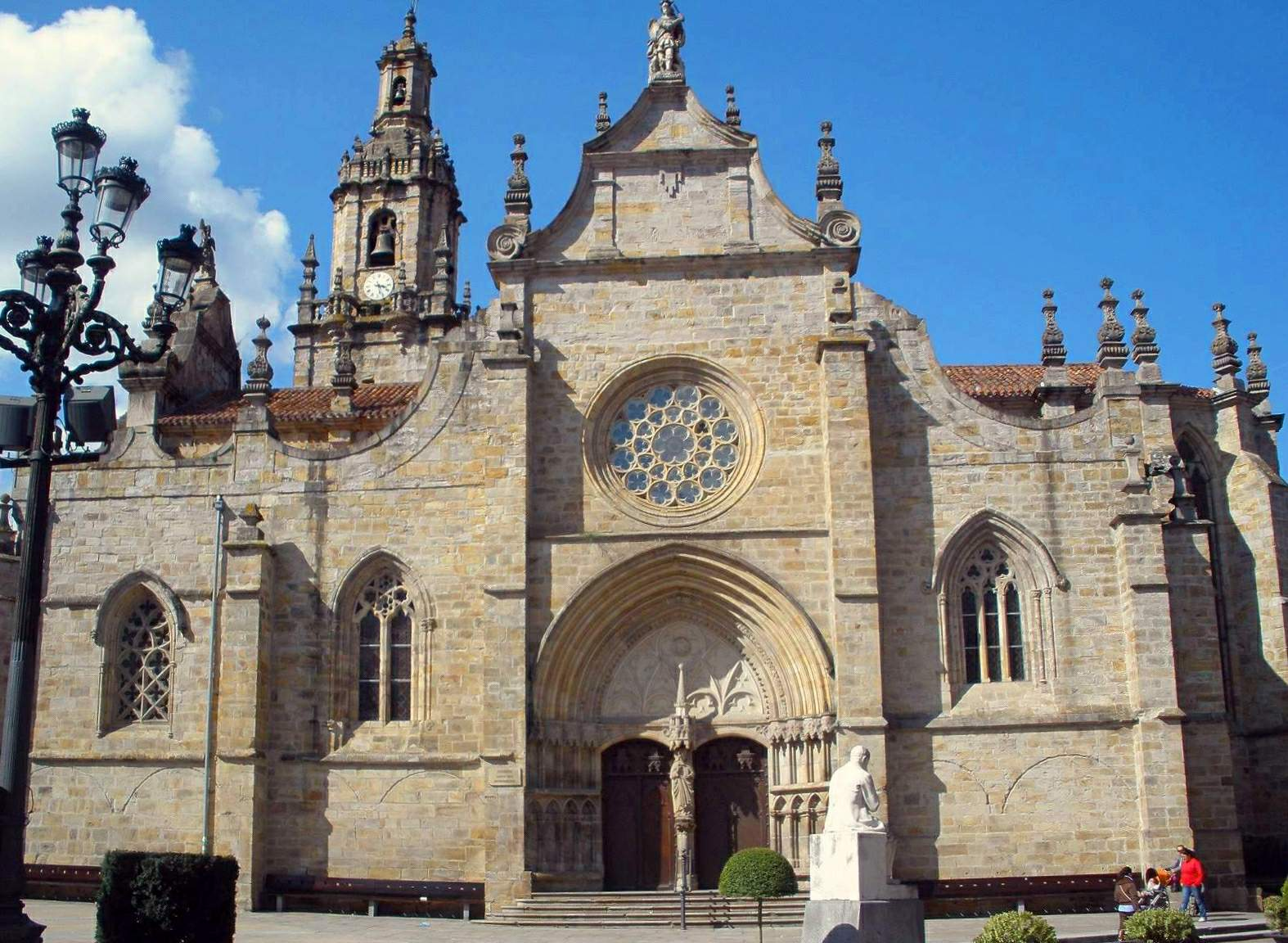 Church of San Severino, Balmaseda (Vizcaya)